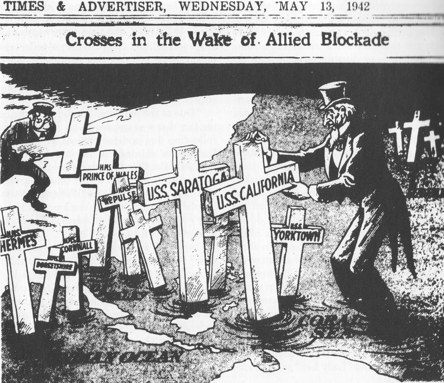 A propaganda cartoon in the Japanese English-language newspaper Japan Times & Advertiser on May 13, 1942 depicts, in the aftermath of the Battle of the Coral Sea, a mournful Uncle Sam joining John Bull in erecting grave markers for ships that the Imperial Japanese Navy claimed to have sunk up to that point in World War II. Although the loss of the British ships were accurate (and generally well-known at the time) the most recent ships were less so. The Japanese claimed to have sunk the fleet carriers Saratoga and Yorktown during the Battle of the Coral Sea, when in fact they had sunk the Lexington and heavily damaged the Yorktown. The battleship California was sunk at Pearl Harbor, and although refloated in March 1942, would not be ready for combat for another two years.